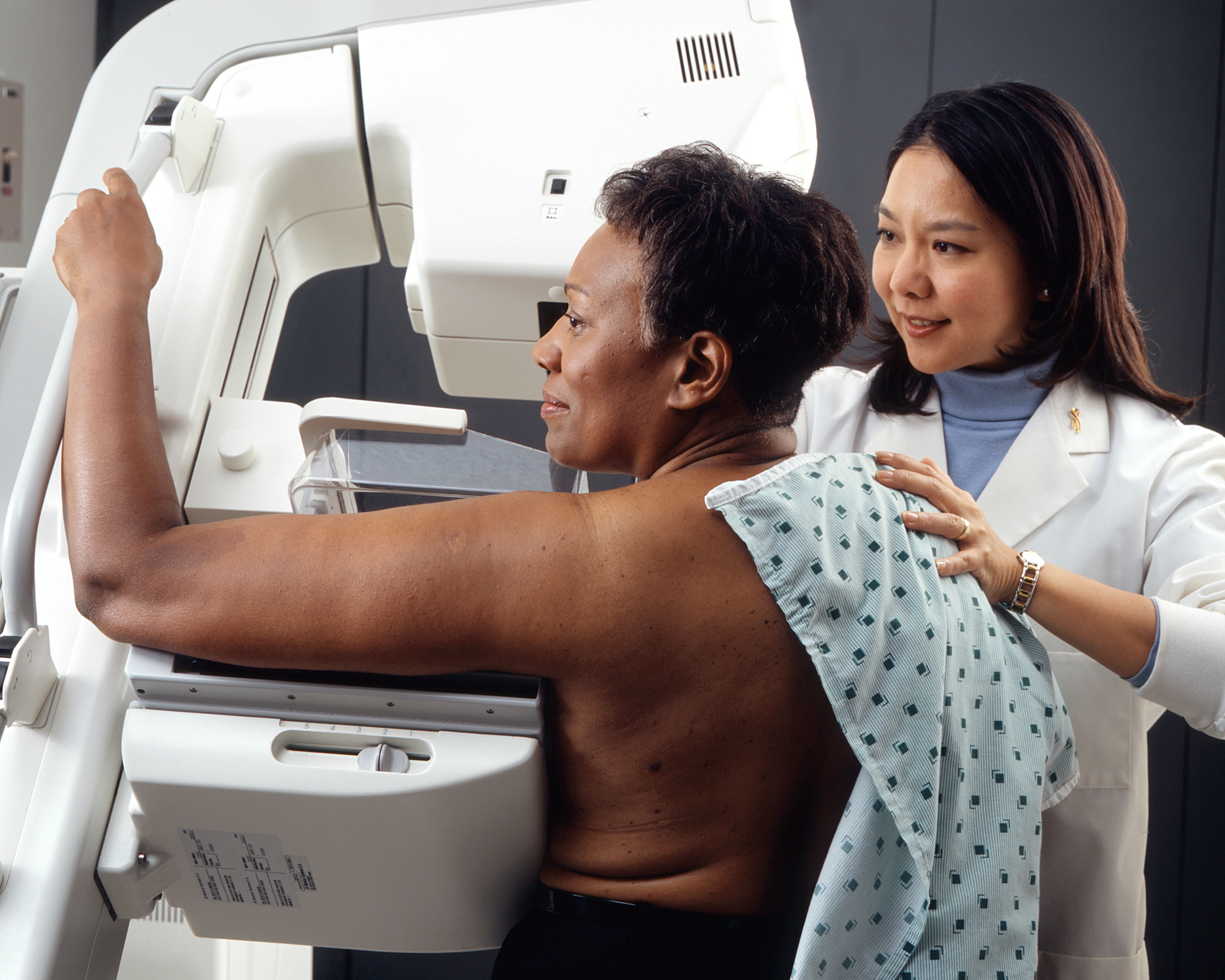 Title Woman Receives Mammogram Description An Asian female technician positions an African-American woman at an imaging machine to receive a mammogram. Topics/Categories Locations -- Clinic/Hospital People -- Adult People -- Health Professional and Patient Test or Procedure -- Imaging Procedures Type Color, Photo Source National Cancer Institute